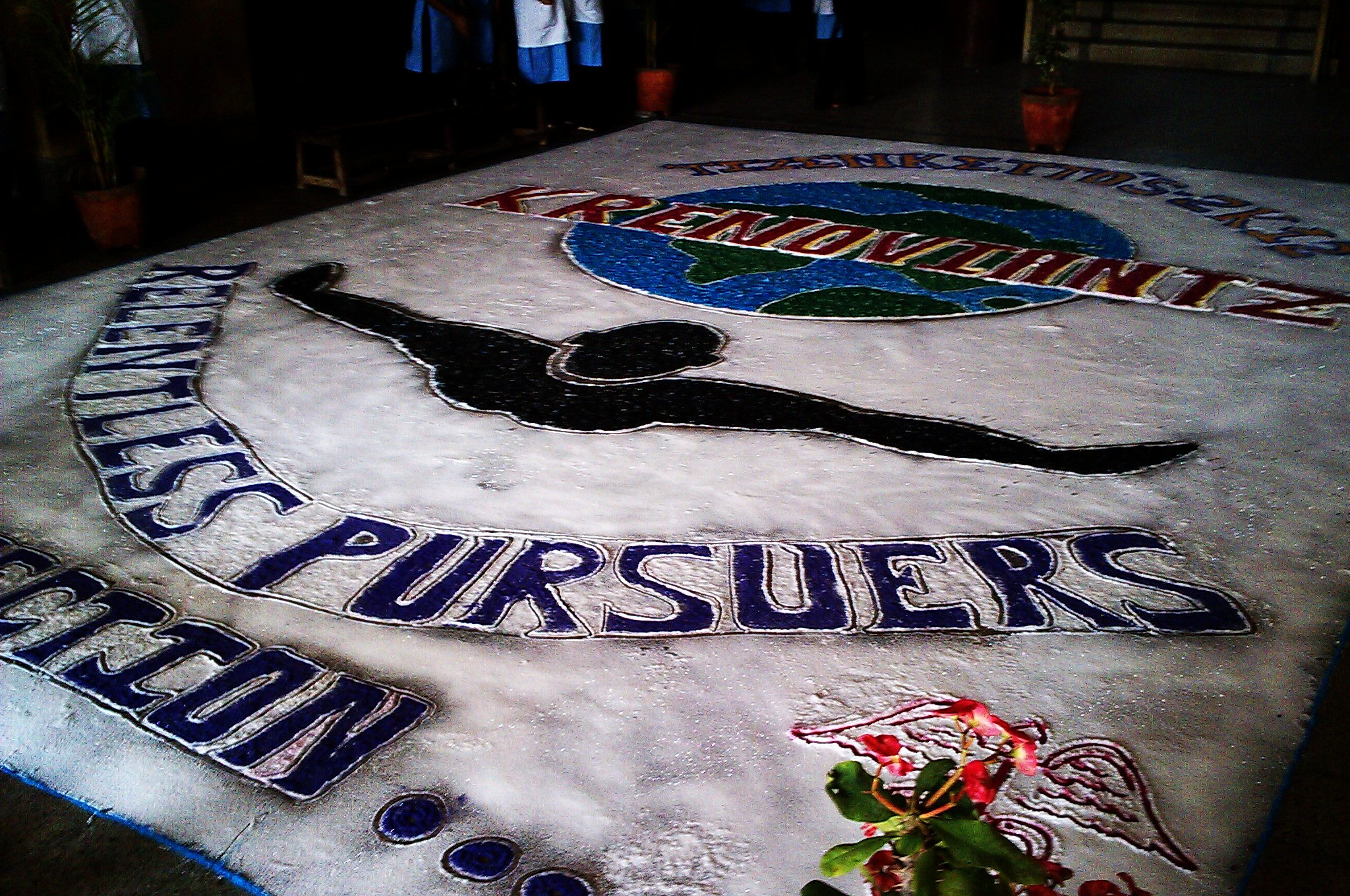 Floor decoration of the entrance ti the college on the occasion of GTP-2012